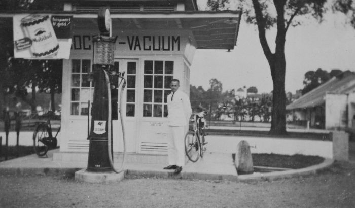 Portrait of a man at a petrol station (Socony, Mobil Oil)